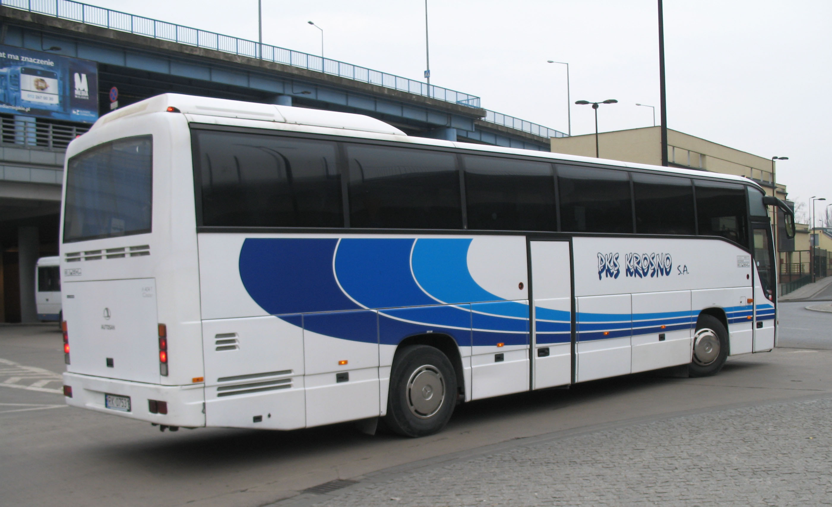 Autosan A404T Cezar coach with Mercedes-Benz O404 chassis in Kraków, Poland. Built 2002, PKS Krosno operator.